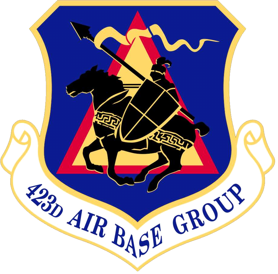 Author: United States Air Force Source: 423d Air Base Group